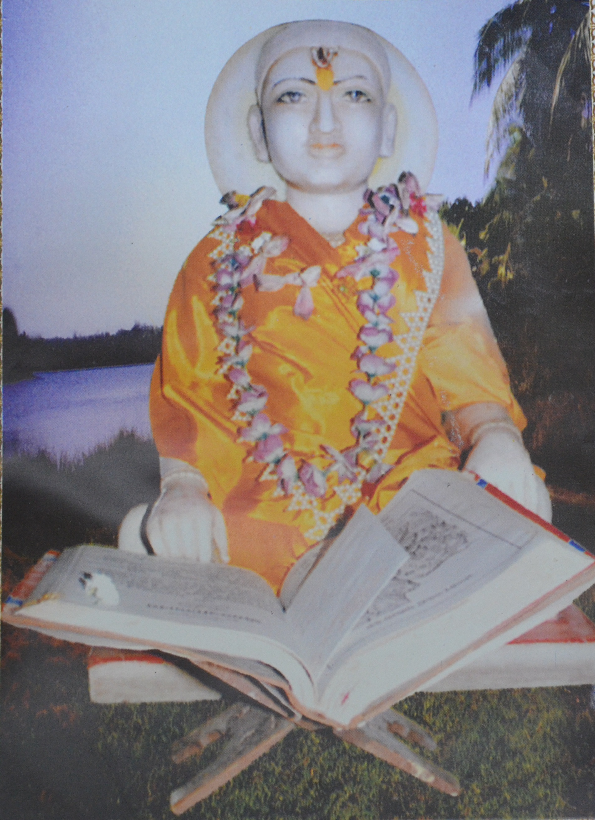 Statue of Gosvami Tulsidas at Kanch Mandir, Chitrakuta, Satna, India